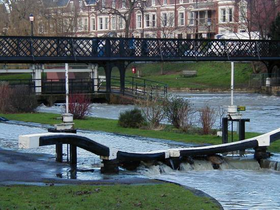 Jesus Lock and Jesus Lock footbridge in Cambridge during flooding of the River Cam in February 2001.